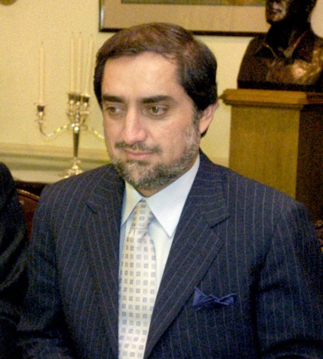 Cropped Image of Afghanistan's Foreign Minister Dr. Abdullah Abdullah [Original Description: Afghan President Hamid Karzai (right) and Minister of Foreign Affairs Abdullah Abdullah (center) meet with Secretary of Defense Donald H. Rumsfeld (left foreground) in the Pentagon on June 14, 2004, to discuss various security issues pertaining Afghanistan and its neighbors. DoD photo by R. D. Ward. (Released) 040614-D-9880W-075 ]